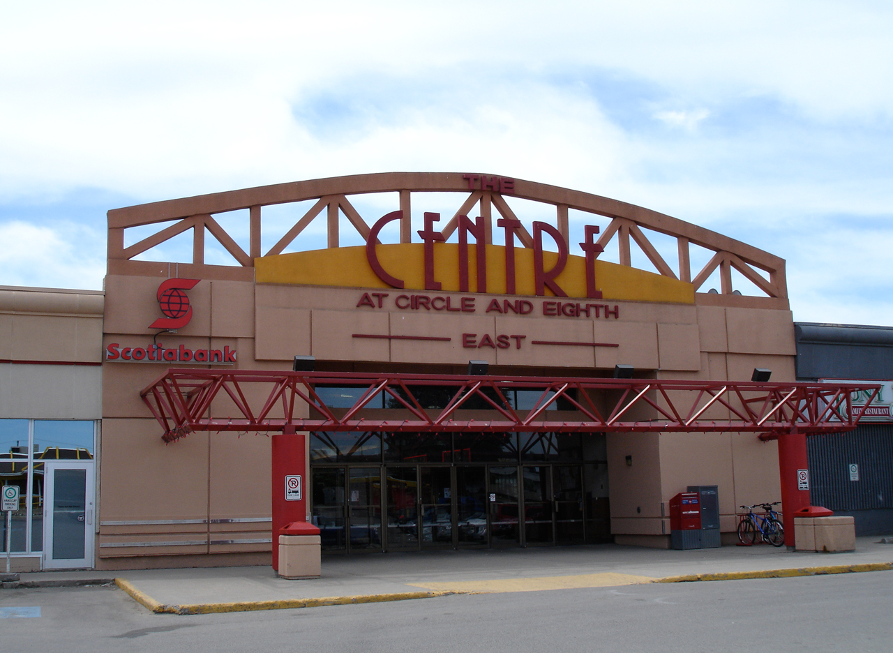 Centre Mall (East) entrance in Saskatoon, Saskatchewan, Canada.